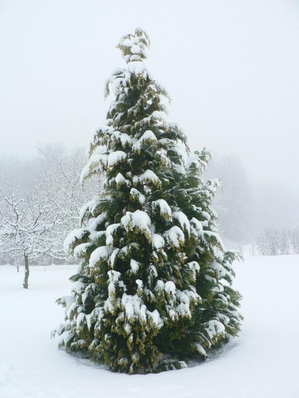 Image title: Snow on cypress tree Image from Public domain images website